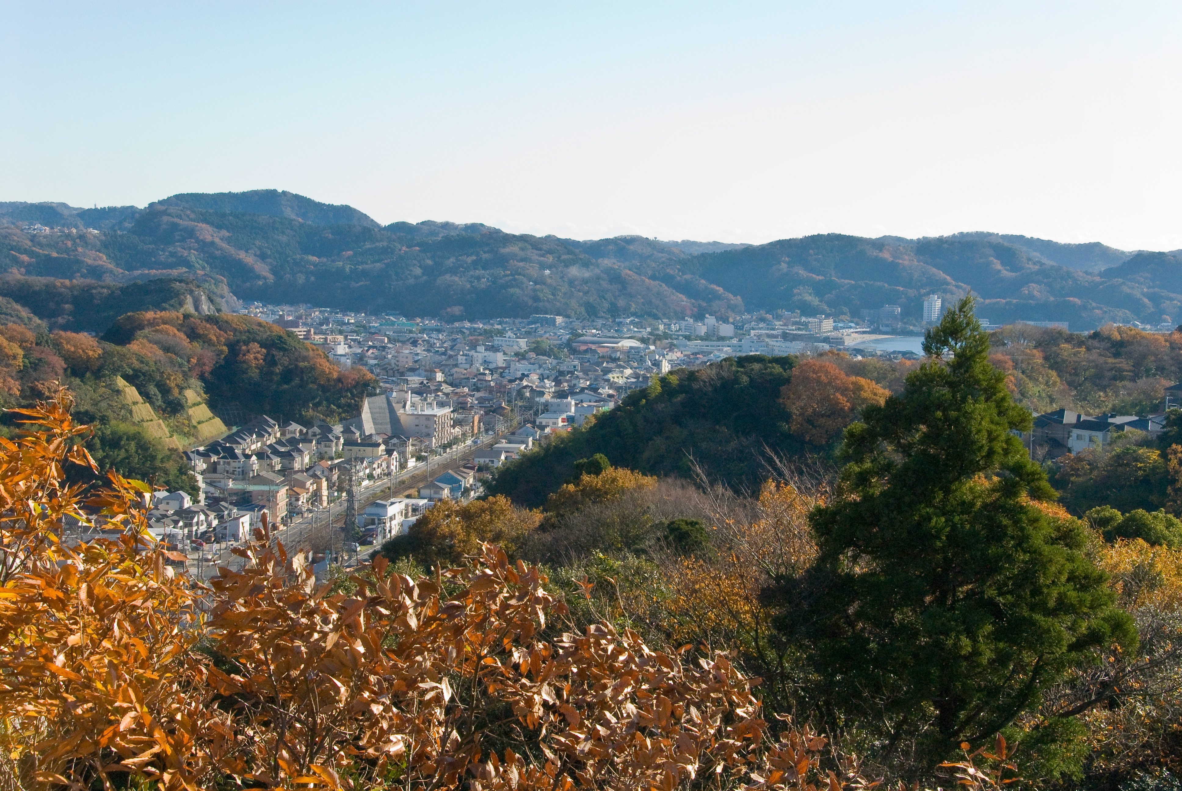 A view of Zushi from the very top of Hosshō-ji